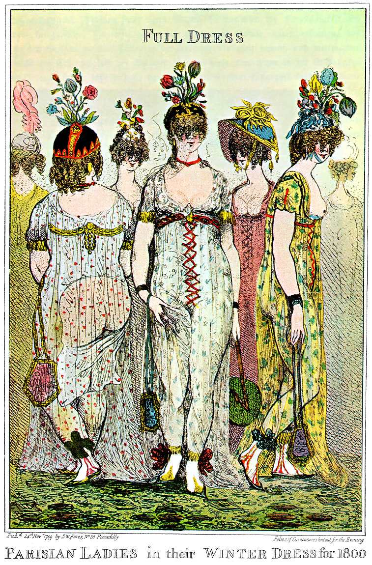 "Parisian Ladies in their Full Winter Dress for 1800", an over-the-top exaggerated satirical Nov. 24th 1799 caricature print by Isaac Cruikshank, on the excesses of the late-1790s Parisian high Greek look, and the too-diaphanous styles allegedly sometimes worn there.